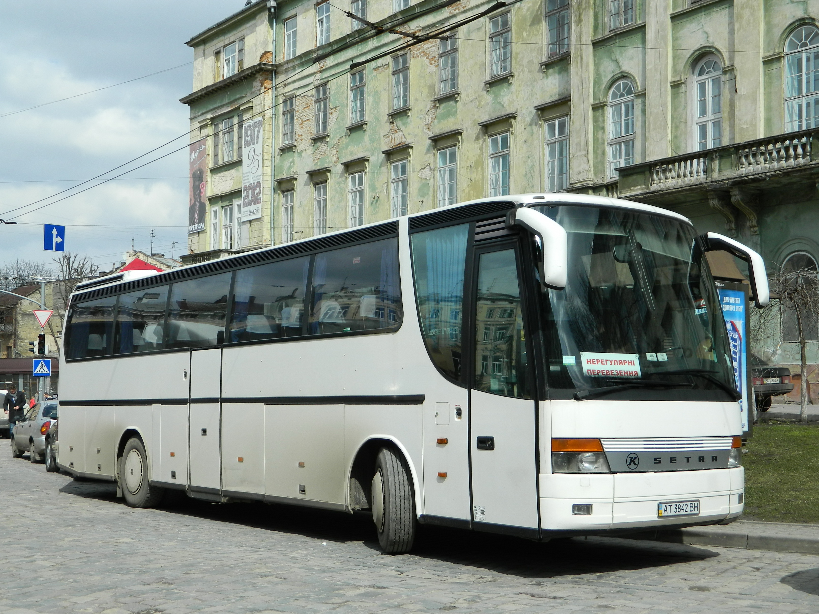 A Setra S315-HD bus from Ivano-Frankivsk.